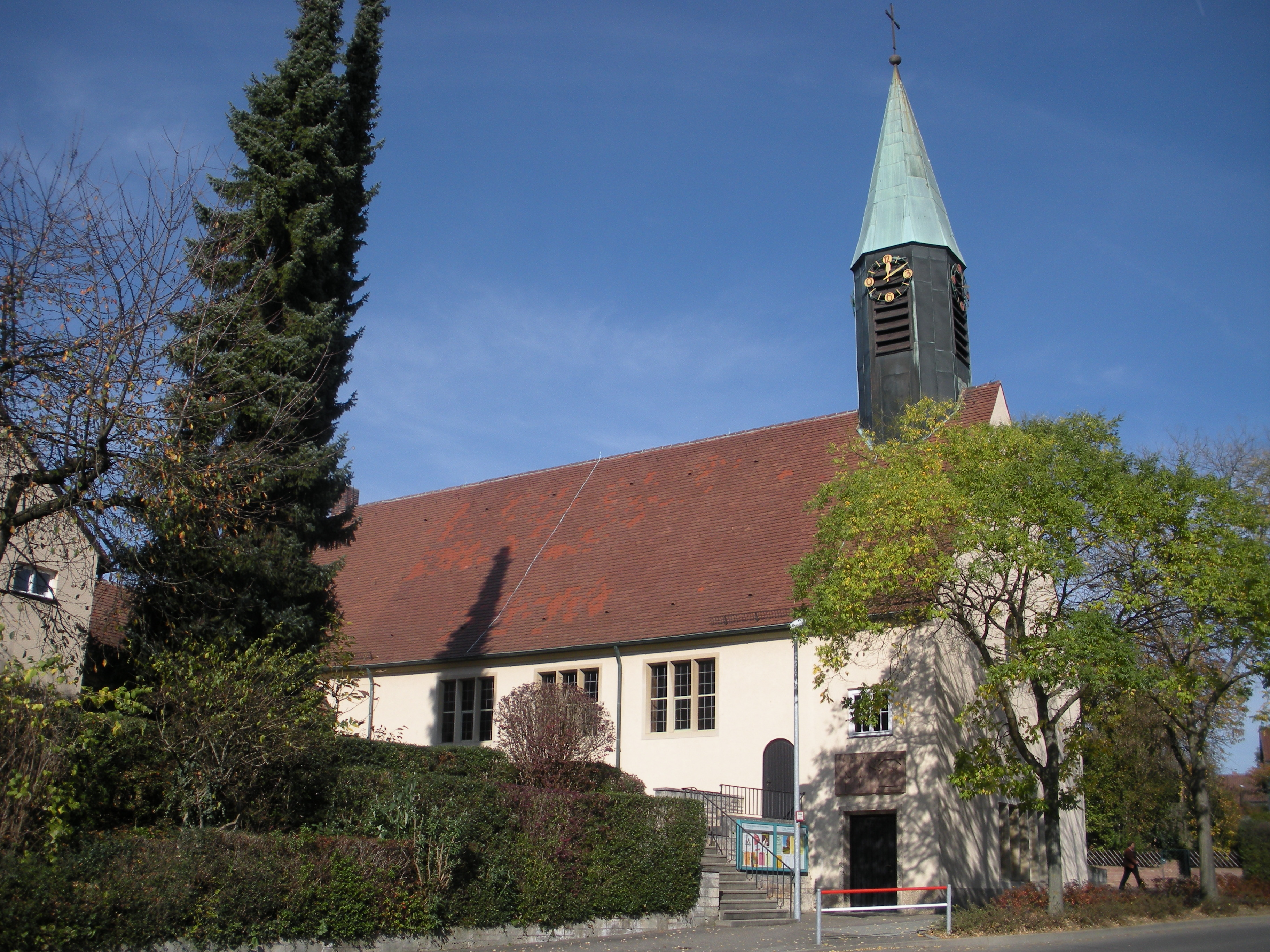 Protestant Church of Emmaus in Stuttgart-Riedenberg